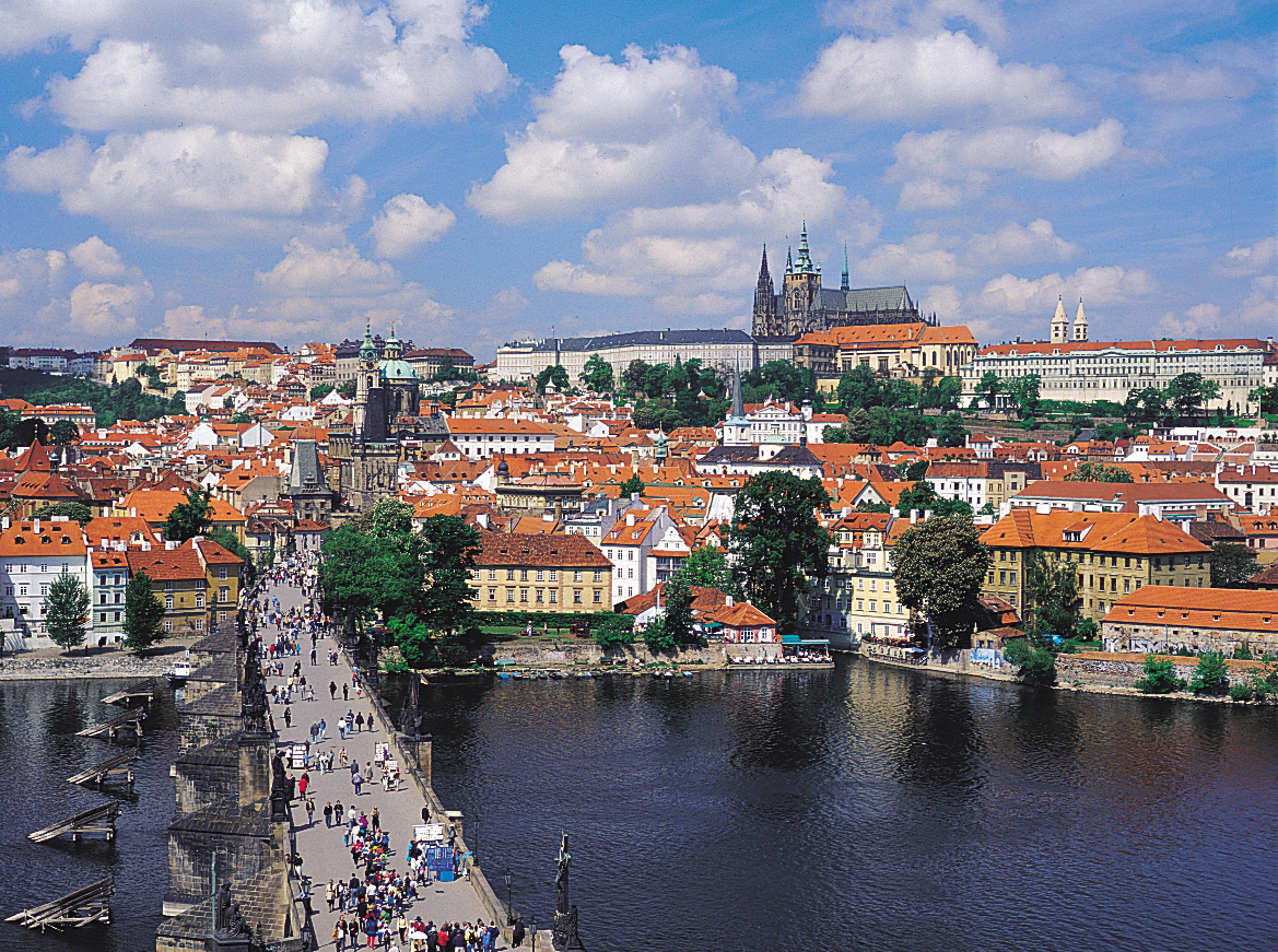 Old Town Tower view